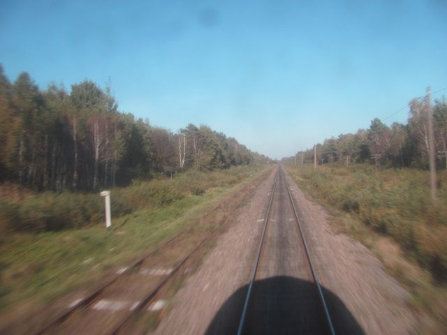 Line Kovel-Jahodyn. Left: Standard gauche, right: broad gauche